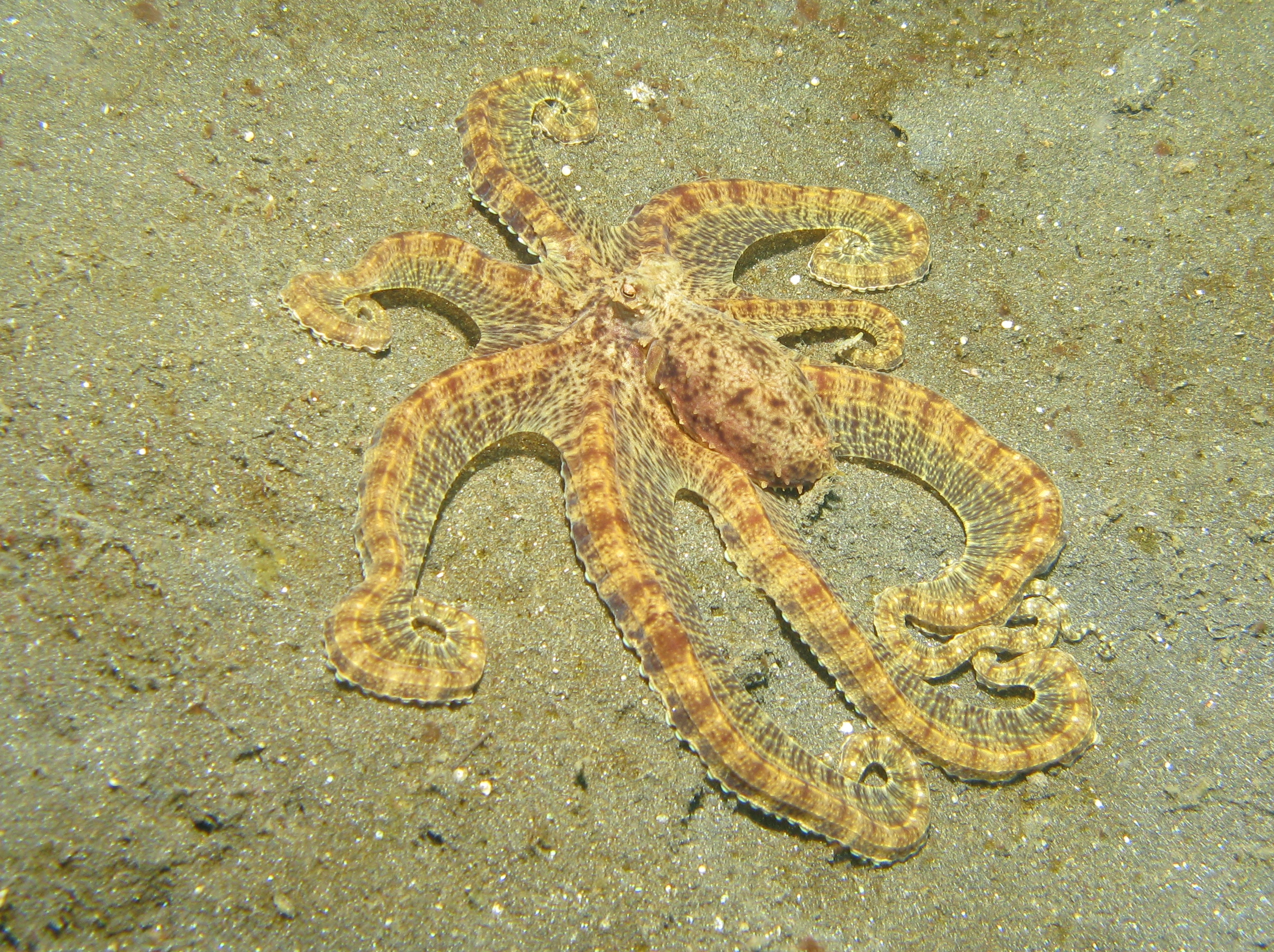 Mimic Octopus (Thaumoctopus mimicus).